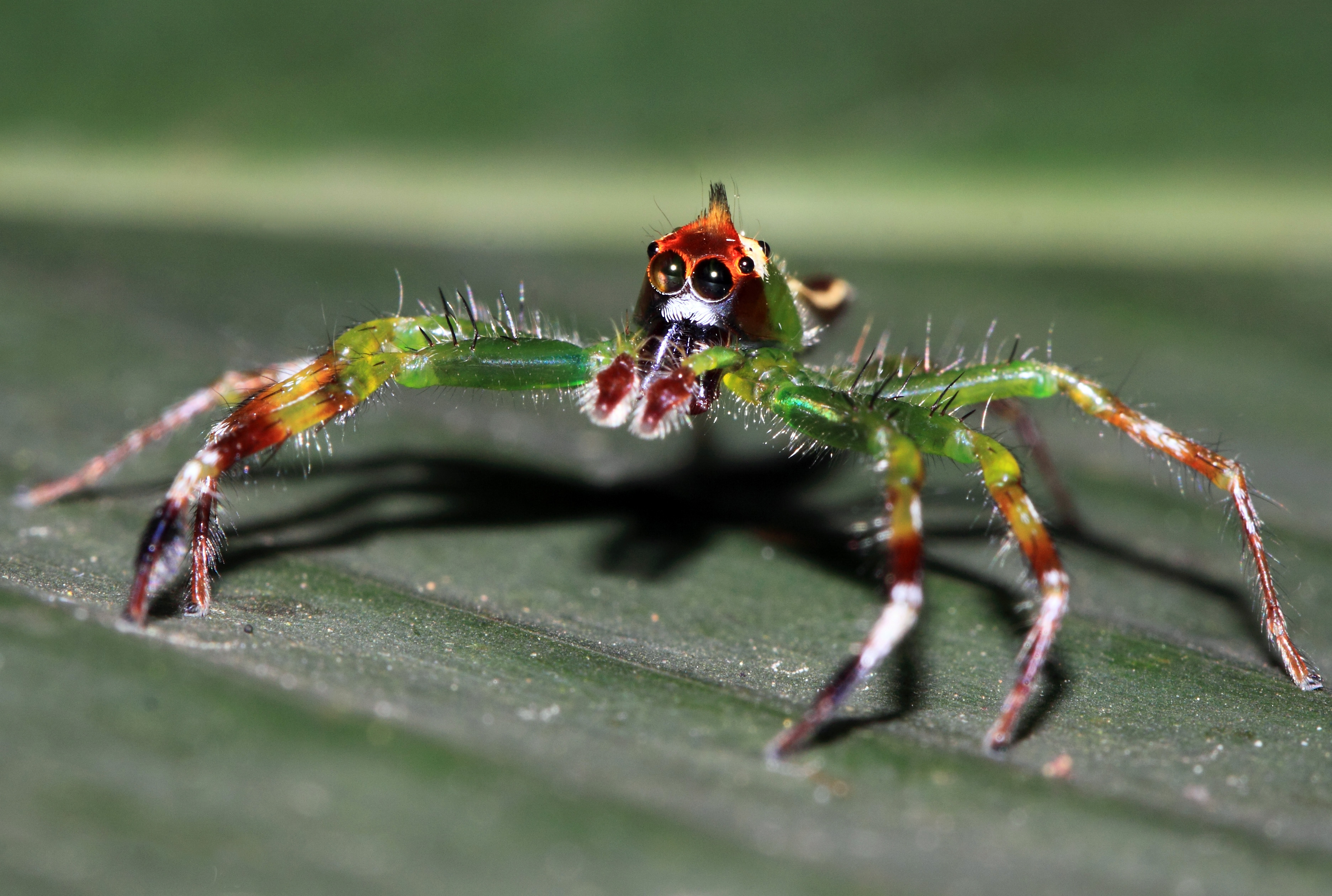 Epeus flavobilineatus DOLESCHALL, 1859 (Yellow-lined Epeus) Indonesia, W-Java, Tangerang: vic. Serpong (Kampung garden), 45m asl., 12.12.2010